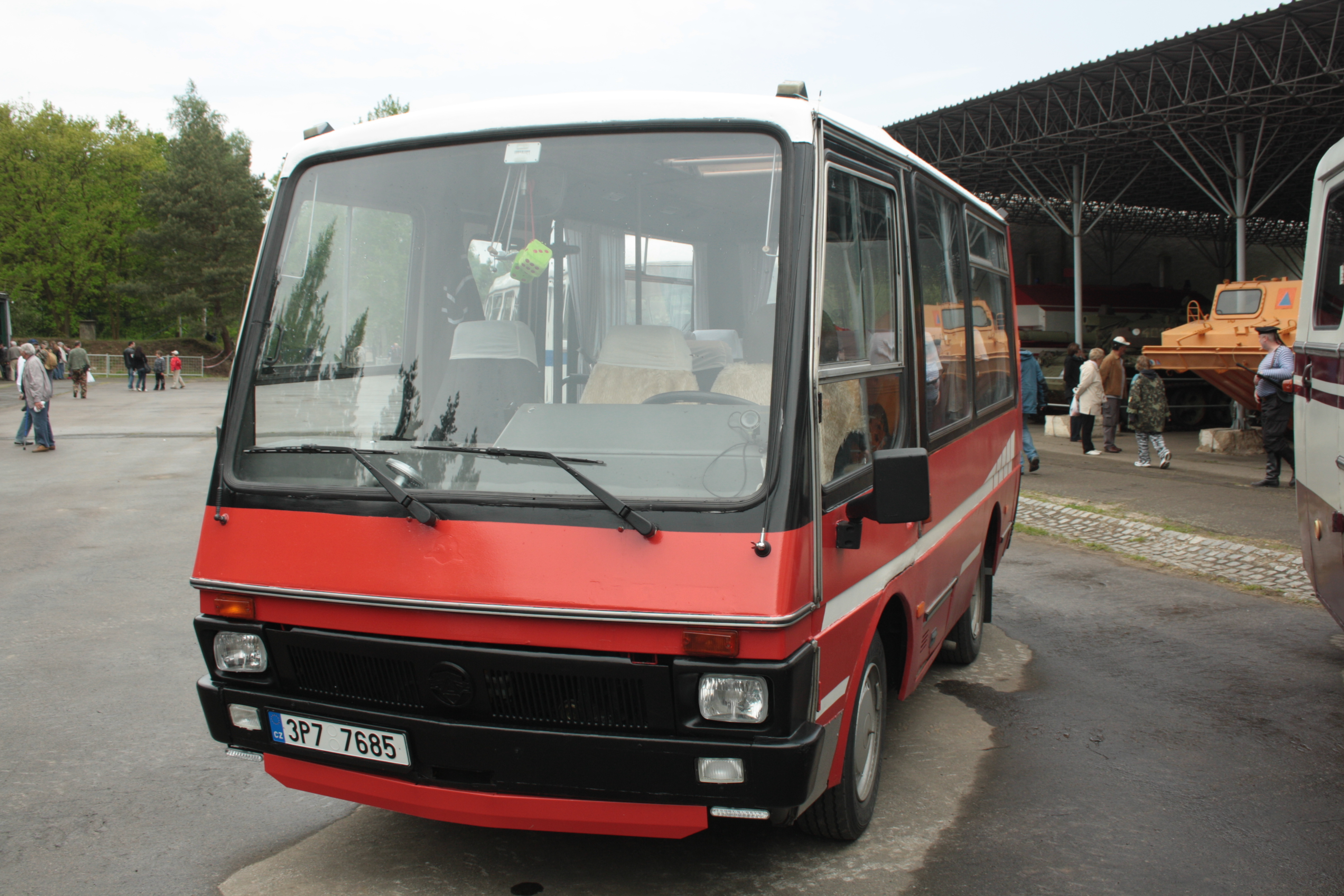 Avia TAZ Neretva yugoslav bus shown on opening show of 15th season of military museum in Lešany, Central Bohemian Region, CZ This photograph was taken with a DSLR from WMCZ's Camera grant. This picture was taken and/or got within the scope of the 'Acquiring scientific and specialized pictures' grant.